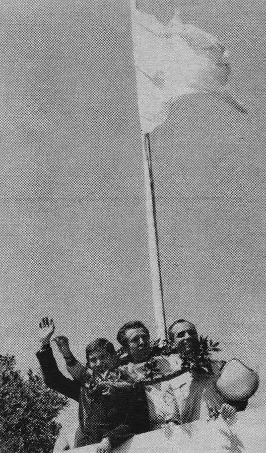 These three won Targa Florio on 6 May 1962. From left: Ricardo Rodriguez, Olivier Gendebien and Willy Mairesse.[1] Location of this picture: Around the finishing line.